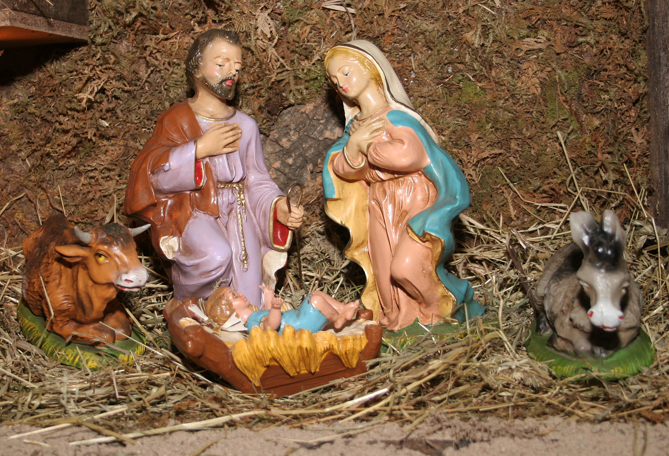 Nativity scene on display in Perstorps kyrka, Sweden.